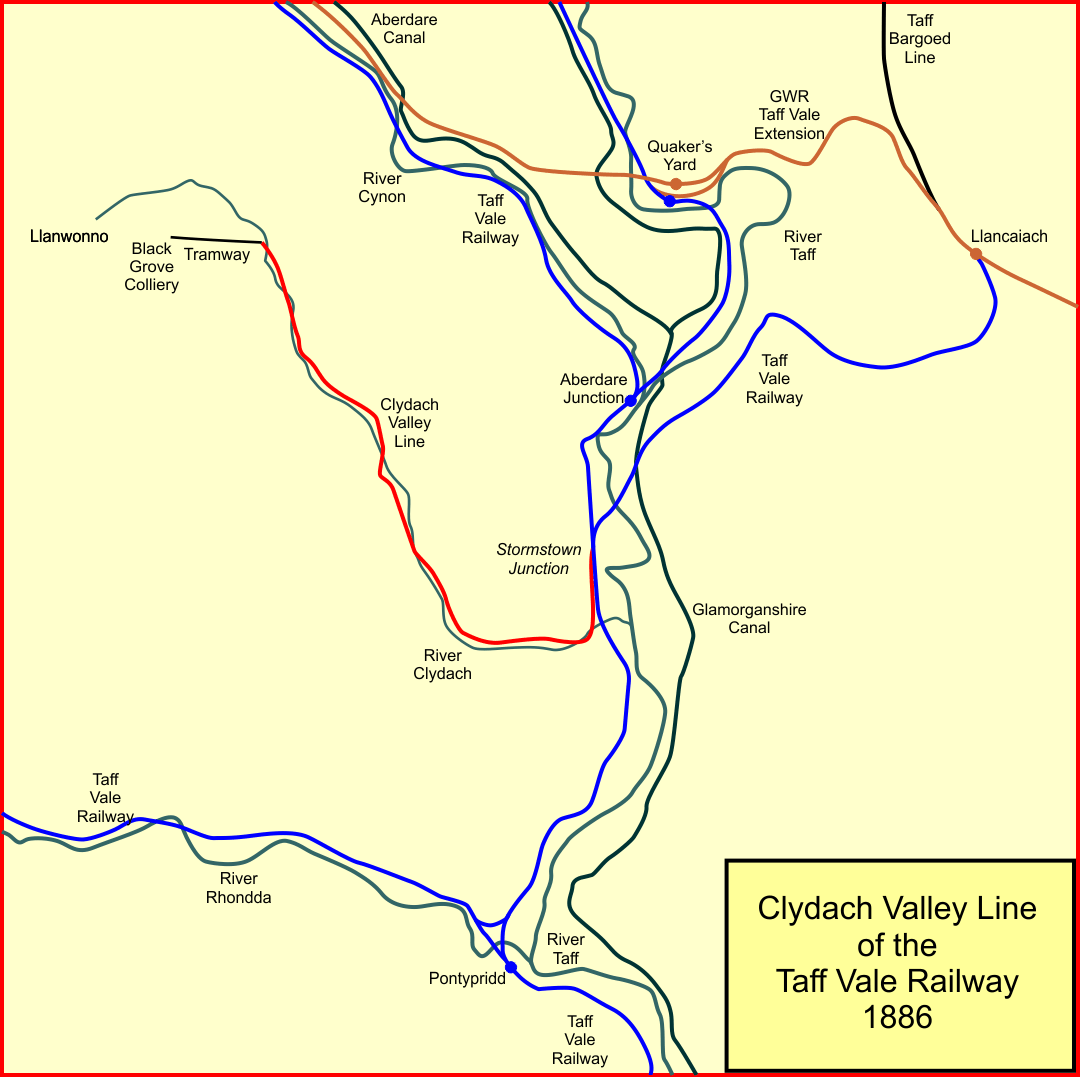 System map of the Ynysybwl branch line of the Taff Vale Railway, Wales